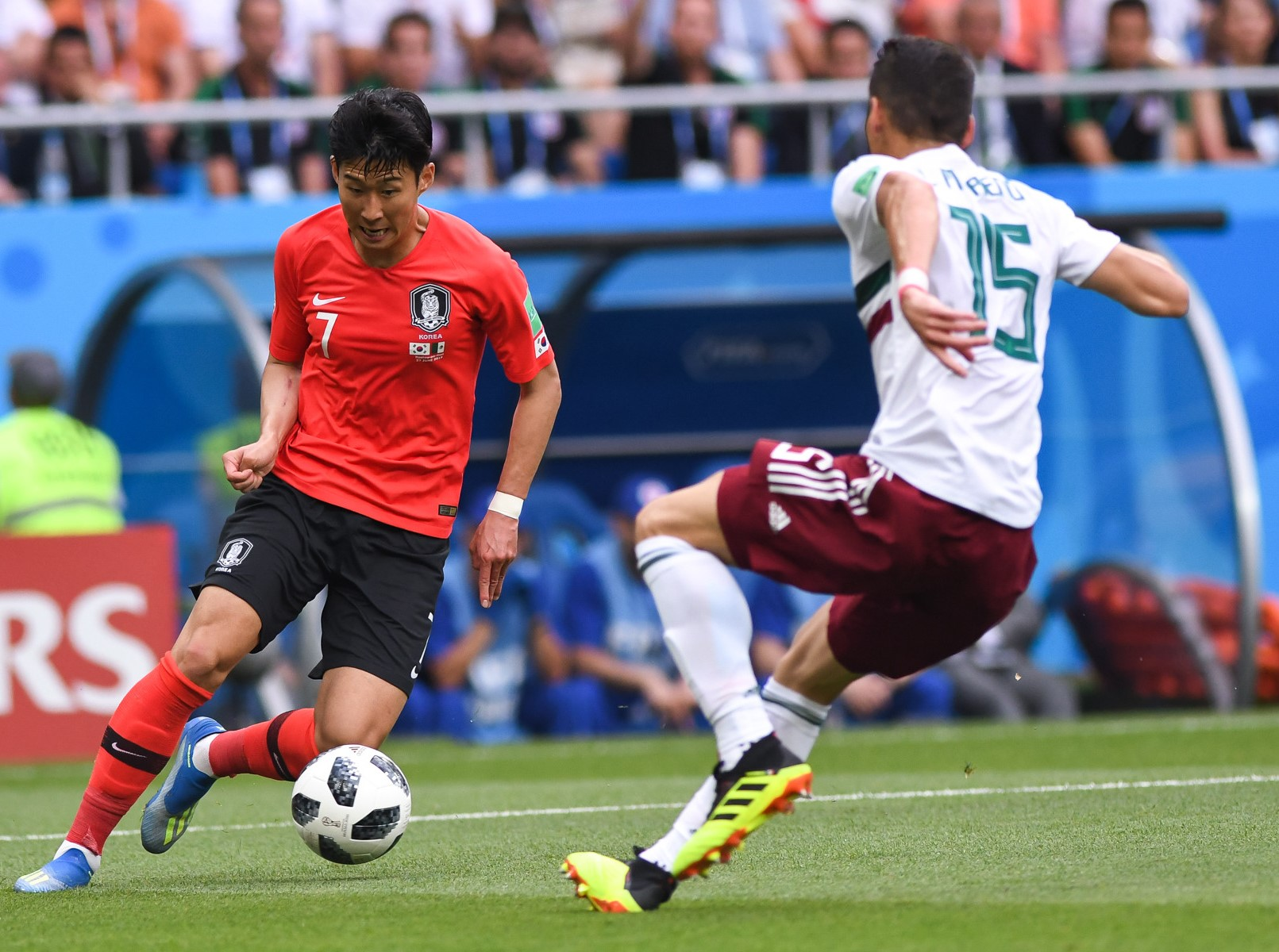 Mexico and South Korea match at the FIFA World Cup 2018-06-23